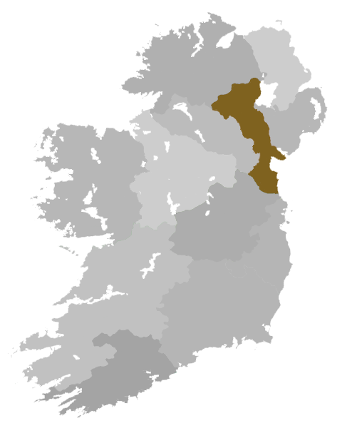 Location map of the Church of Ireland Diocese of Armagh Information source: Church of Ireland website]